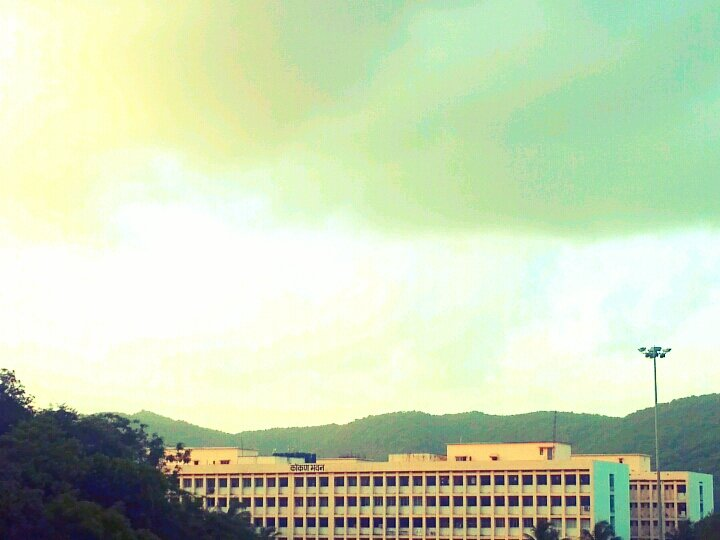 this is a picture of Kokan Bhavan Administrative building taken from Belapur Station Complex